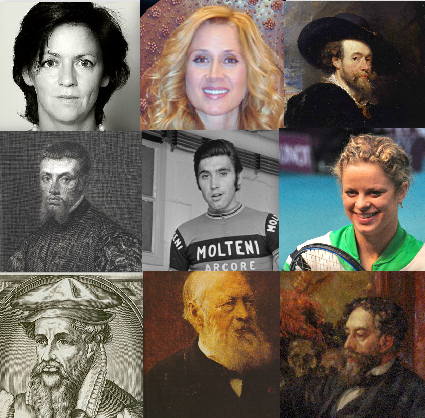 created and croped from other files from wikimedia commons: Els Dottermans File:Els do wik.jpg Lara Fabian File:Lara Fabian 140x190.jpg Peter Paul Rubens File:Rubens Self-portrait 1623.jpg Andreas Vesalius File:Tintorretto-Andreas-Vesalius-engrav-Tavernier.jpg Eddy Merckx File:Eddy Merckx Molteni 1973.jpg Kim Clijsters File:Kim Clijsters.jpg Gerardus Mercator File:Mercator.jpg Hendrik Conscience File:Hendrik Conscience.jpg James Ensor File:Henry De Groux.James Ensor.JPG